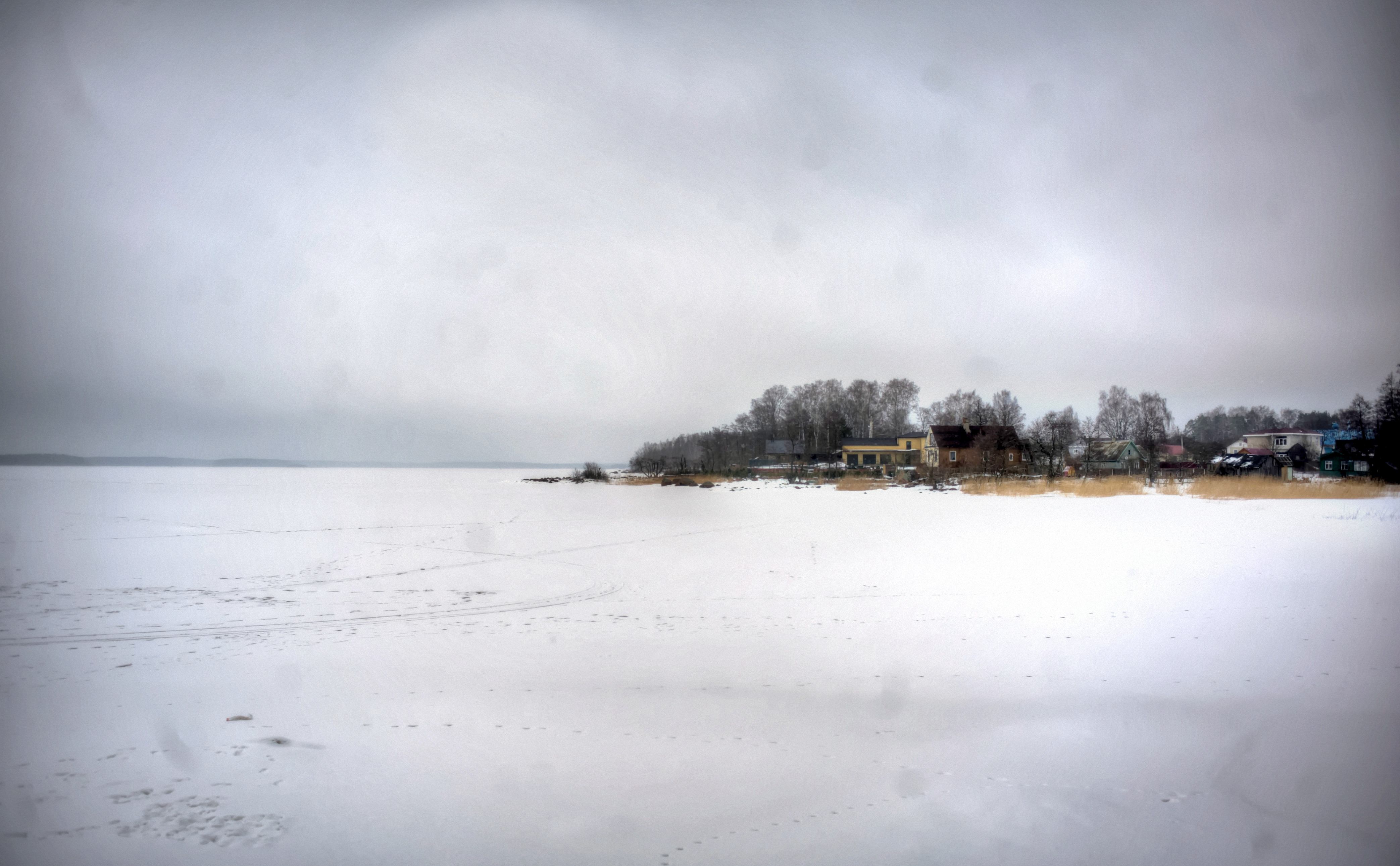 Baltic Sea in Johannes